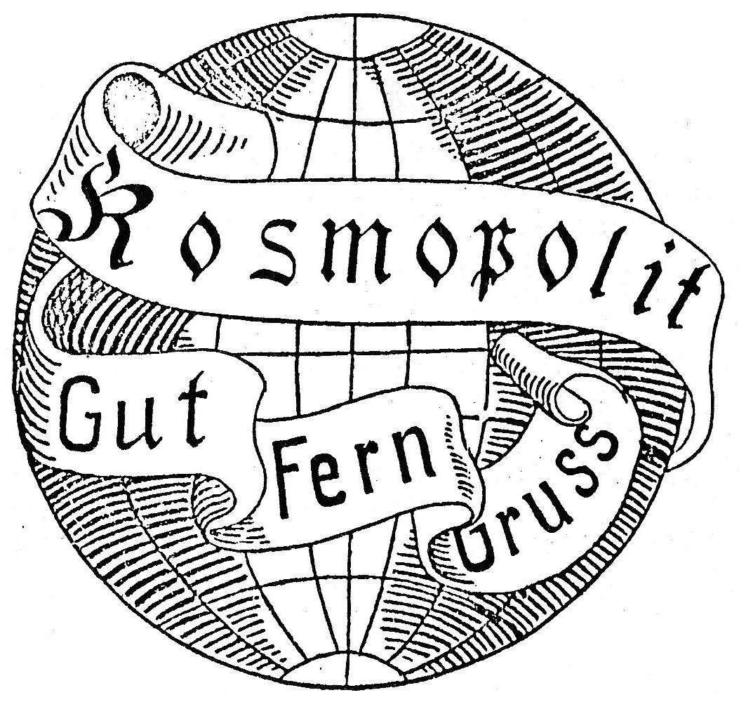 Logo of the wordwide postcard collecting club "Kosmopolit"